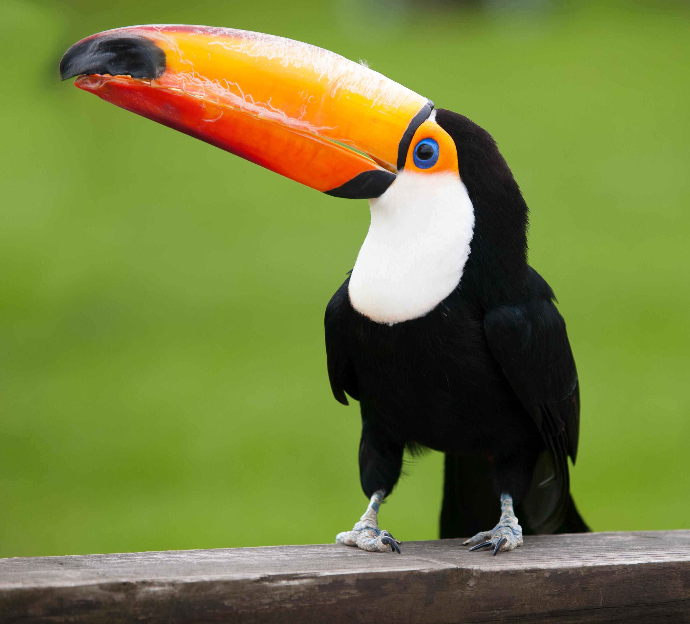 Toco Toucan at the Whipsnade Zoo in Dagnall, England.